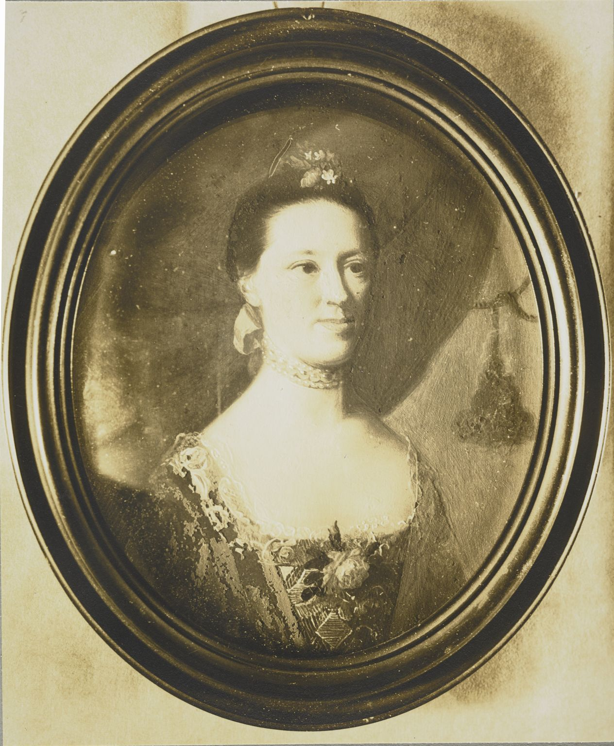 Title:Mrs. Henry Marchant (Rebecca Cooke). Author/Artist:Copley, John Singleton, 1738-1815 Creation Date:1770 Description:Graphic reproduction(s) with documentation of a miniature. oil on copper. Provenance:Has always been in the possession of the family; Mr. Frank E. Marchant, West Kingston, Rhode Island, son of the subject; Miss Alice Clarke, Cohoes, New York, great-great-granddaughter of the subject. Current Repository:Alice Clarke, Cohoes, New York, United States, private.